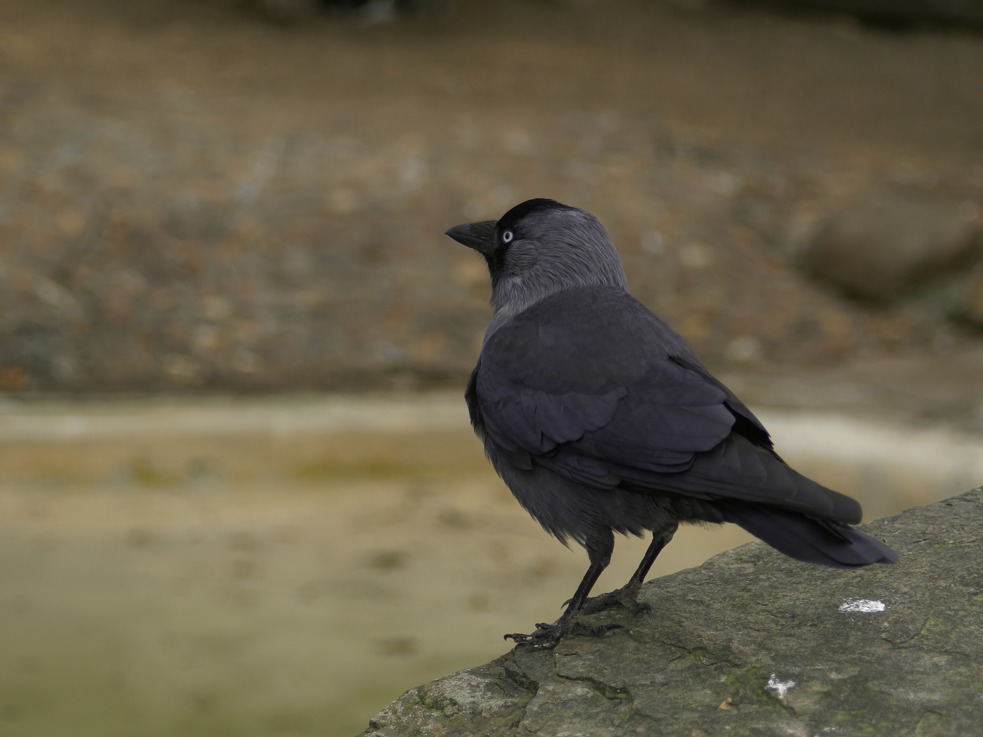 Jackdaw at but not in the Antwerp Zoo, Belgium